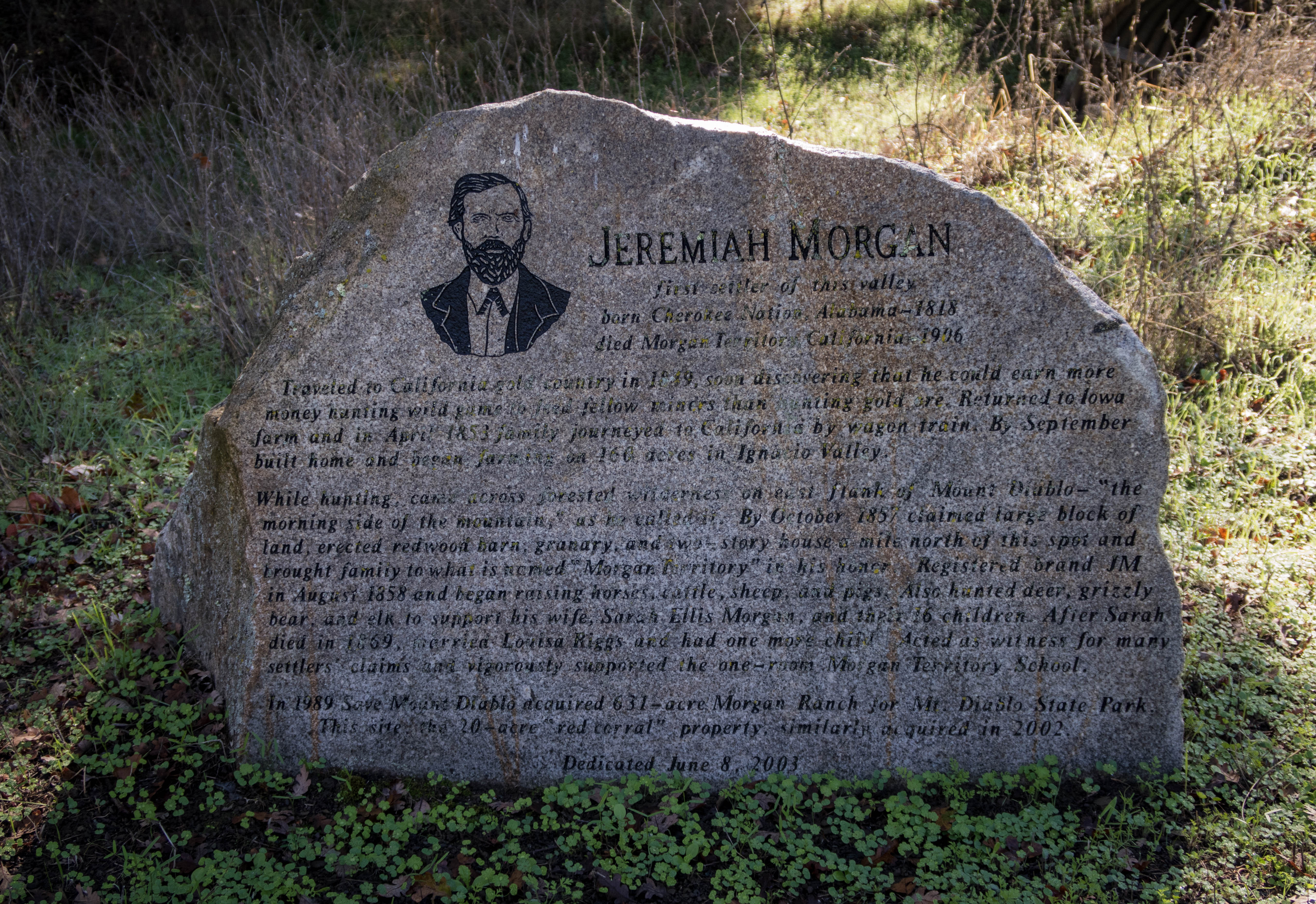 Historic monument honoring Jermiah Morgan at its Morgan Red Corral property on Morgan Territory Road, with text prepared by Morgan Territory historian Anne Homan.